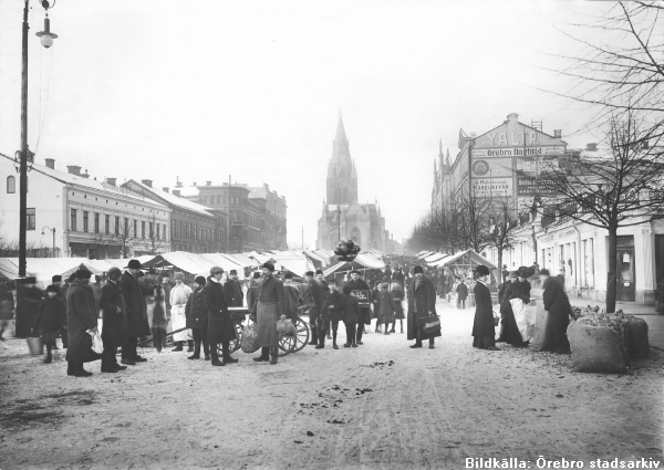 The square "Stortorget", Örebro, Sweden